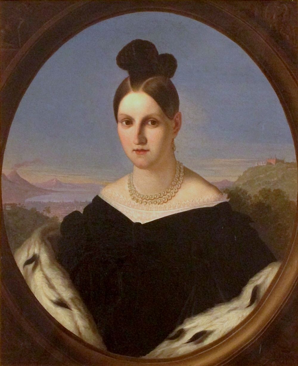 Maria Antonia of the Two Sicilies (1814-1898), Royal Princess of the Two Sicilies, Grand Duchess of Tuscany, consort of Leopold II of Habsburg-Lothringen, Grand Duke of Tuscany.